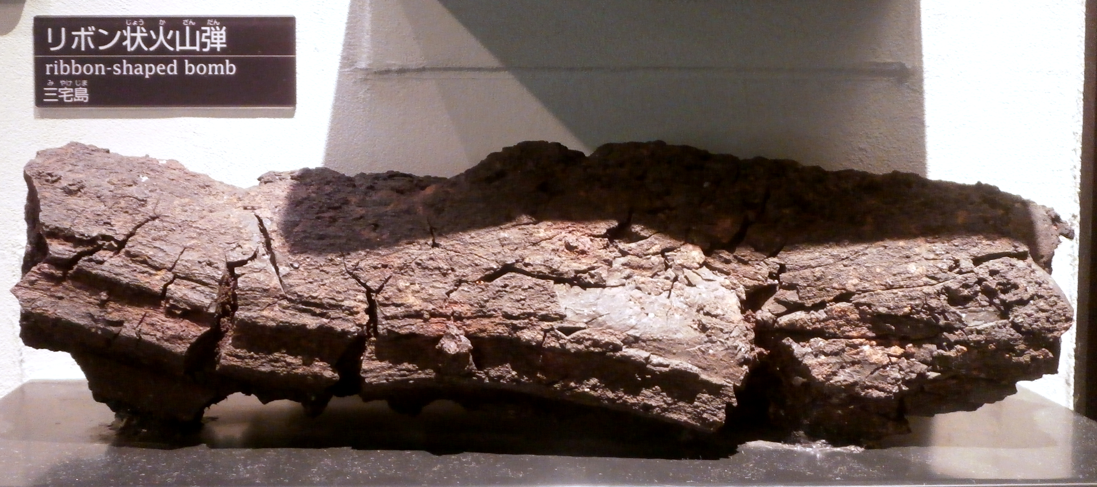 Ribbon-shaped bomb from Miyake-jima, Japan. Exhibit in the National Museum of Nature and Science, Tokyo, Japan.